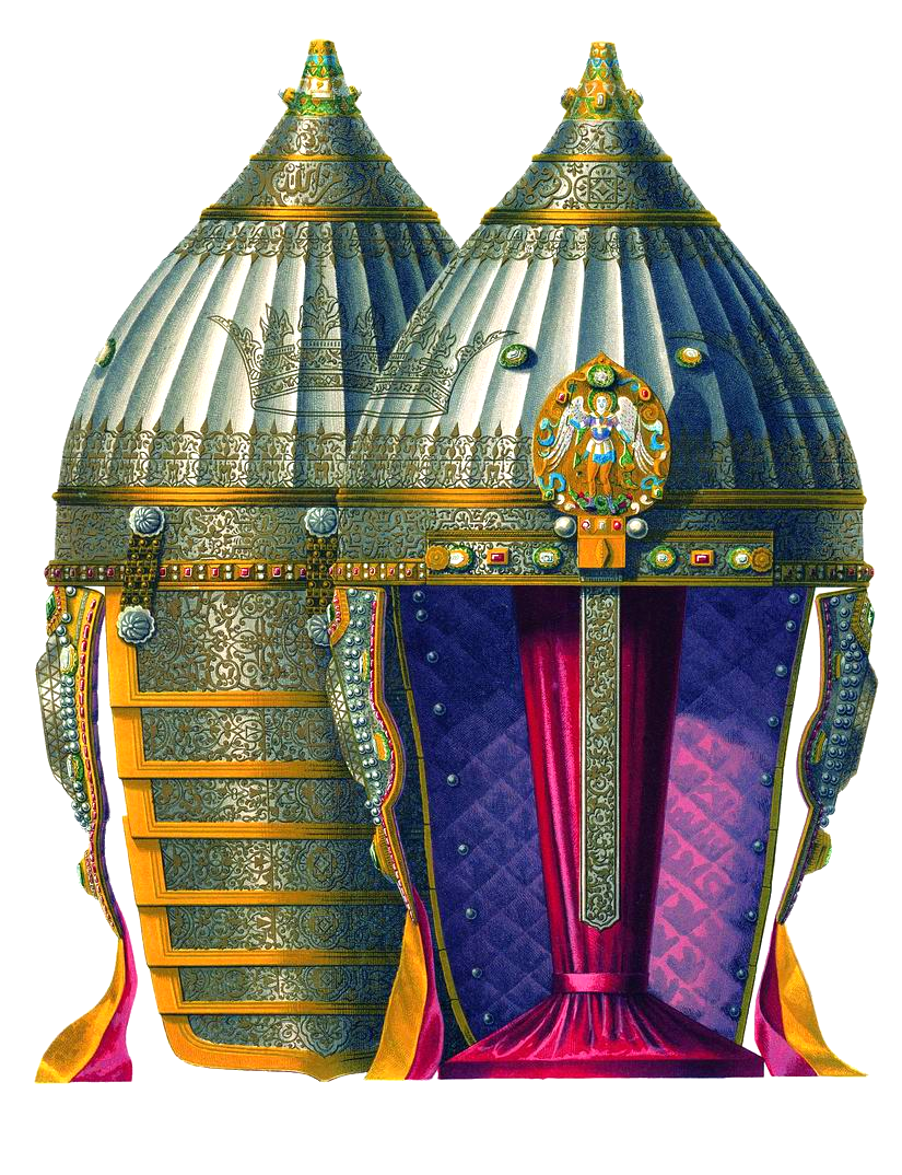 Helmet of Alexander Nevsky